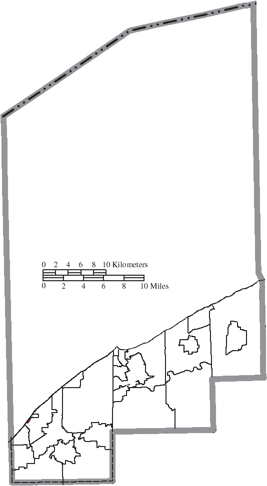 Map of the municipal and township boundaries of Lake County, Ohio, United States, as of the 2000 census, with the location of the village of Lakeline highlighted. Township borders are shown only in unincorporated areas in order to differentiate incorporated and unincorporated areas more clearly.